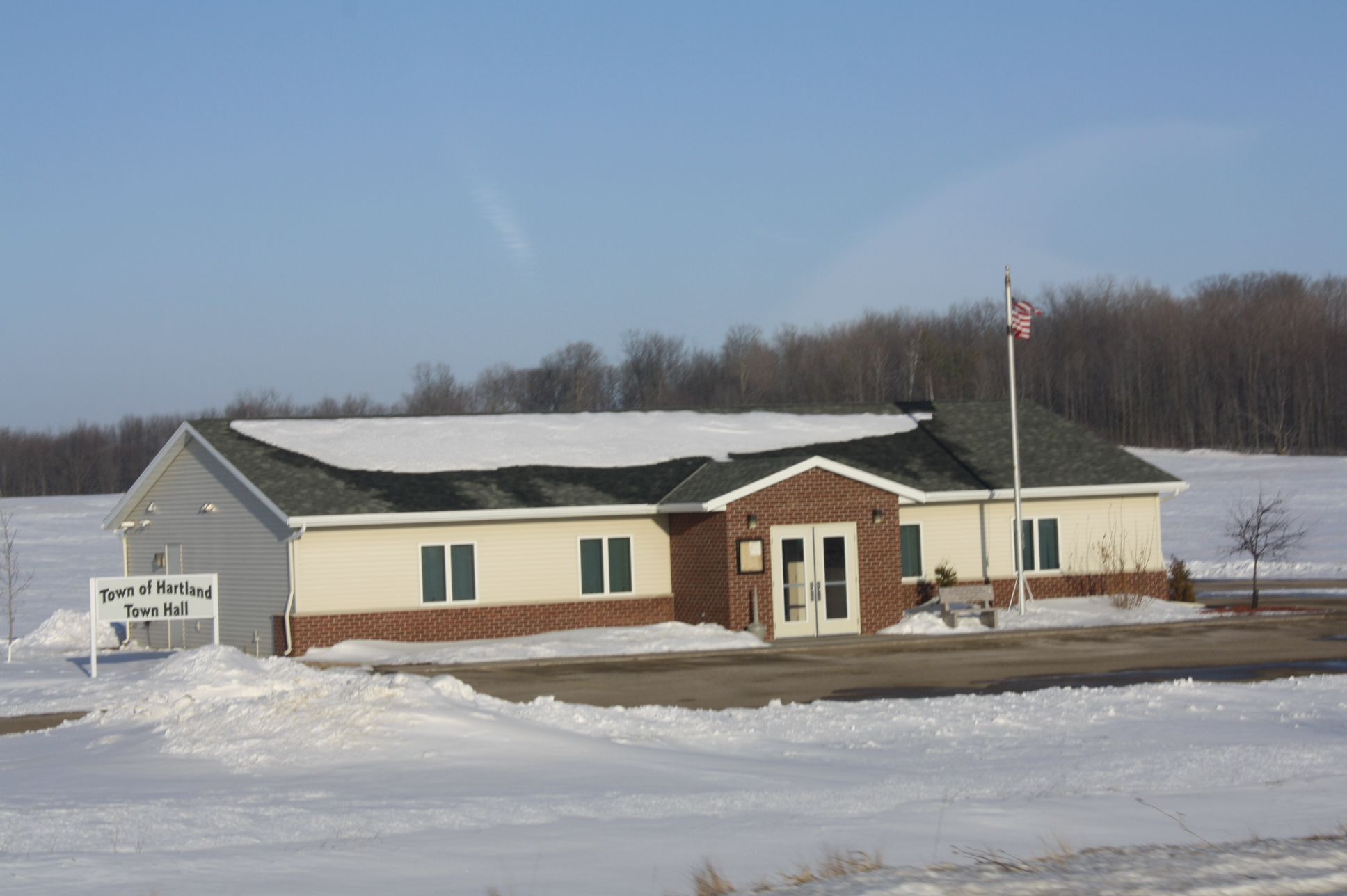 The current town hall for Hartland, Shawano County, Wisconsin along the former route for Wisconsin Highway 29.